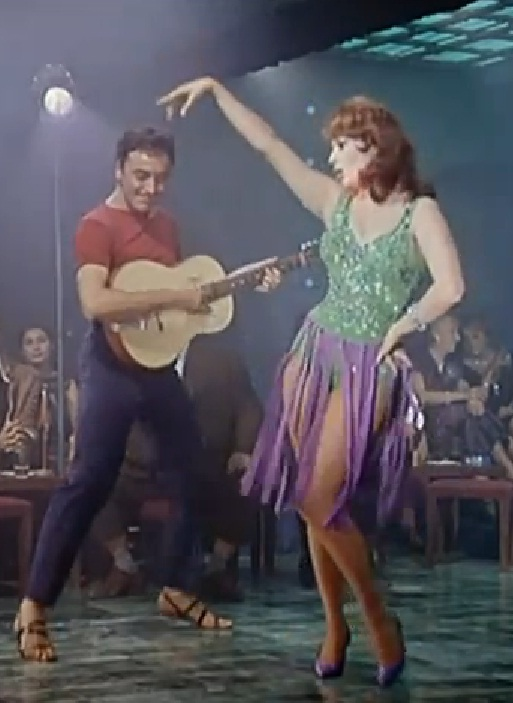 Scene from It Started in Naples (1960).